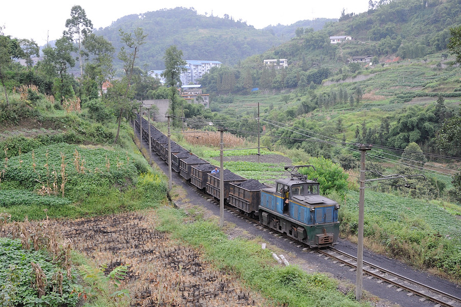 Jiayang Coal Railway ZL 14-7 03